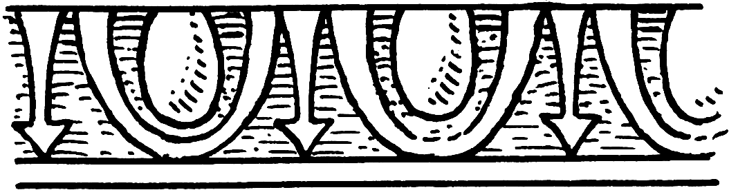 Egg and dart decorative motif